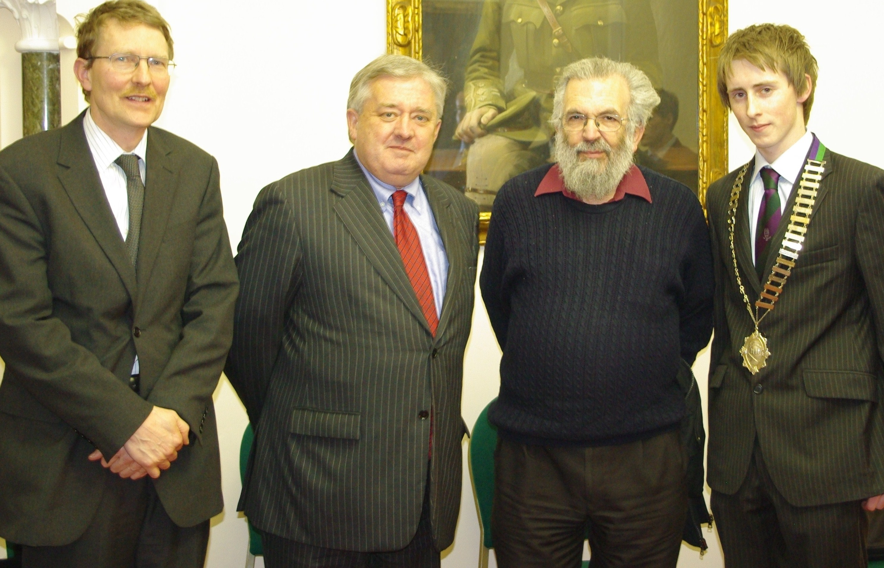 Justice Adrian Hardiman of the Supreme Court of Ireland (second from left), Joseph Raz (third from left) meet the Auditor of the University College Dublin Law Society, Niall Ó hUiginn (right). The Auditor is the head of the committee that manages the Society. (The gentleman on the left has not yet been identified.)